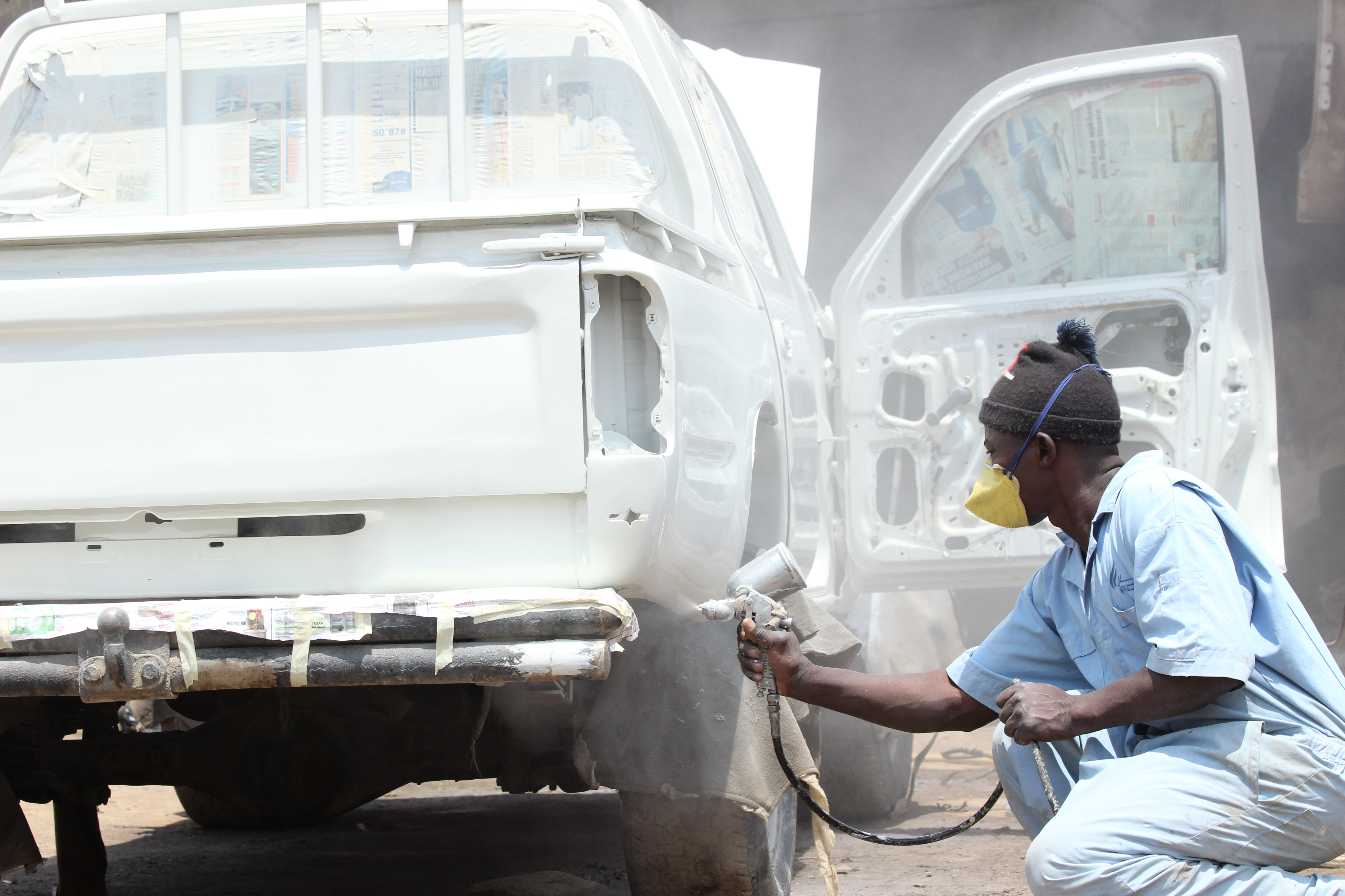 This is an image of "African people at work" from Tanzania